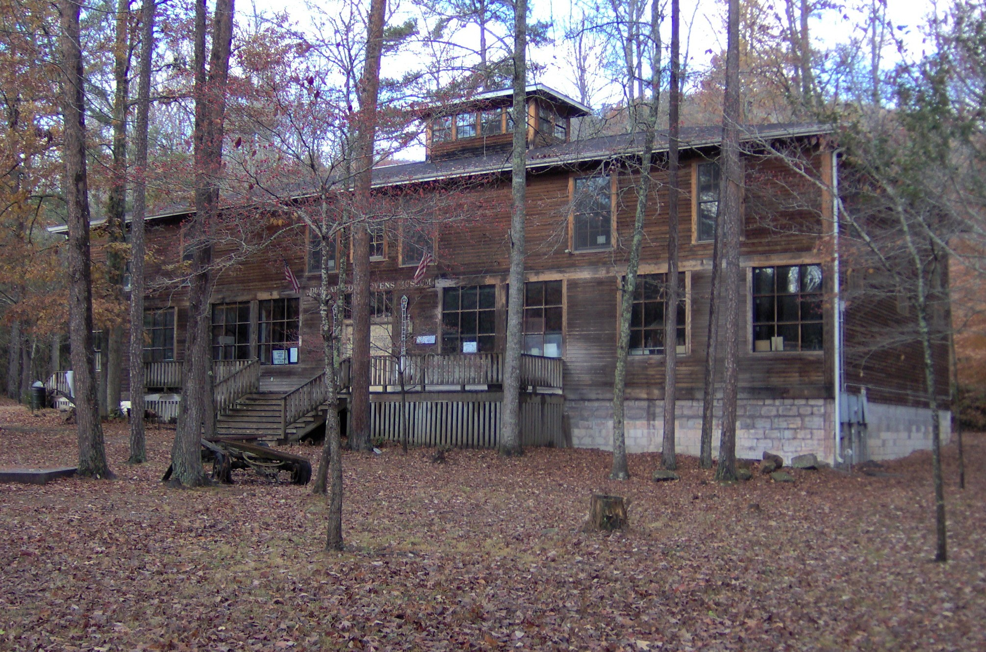 The Dunlap Coke Ovens Museum in Dunlap, Tennessee, in the southeastern United States. The museum interprets the history of the coke ovens (located behind the building) used to convert coal into coke.